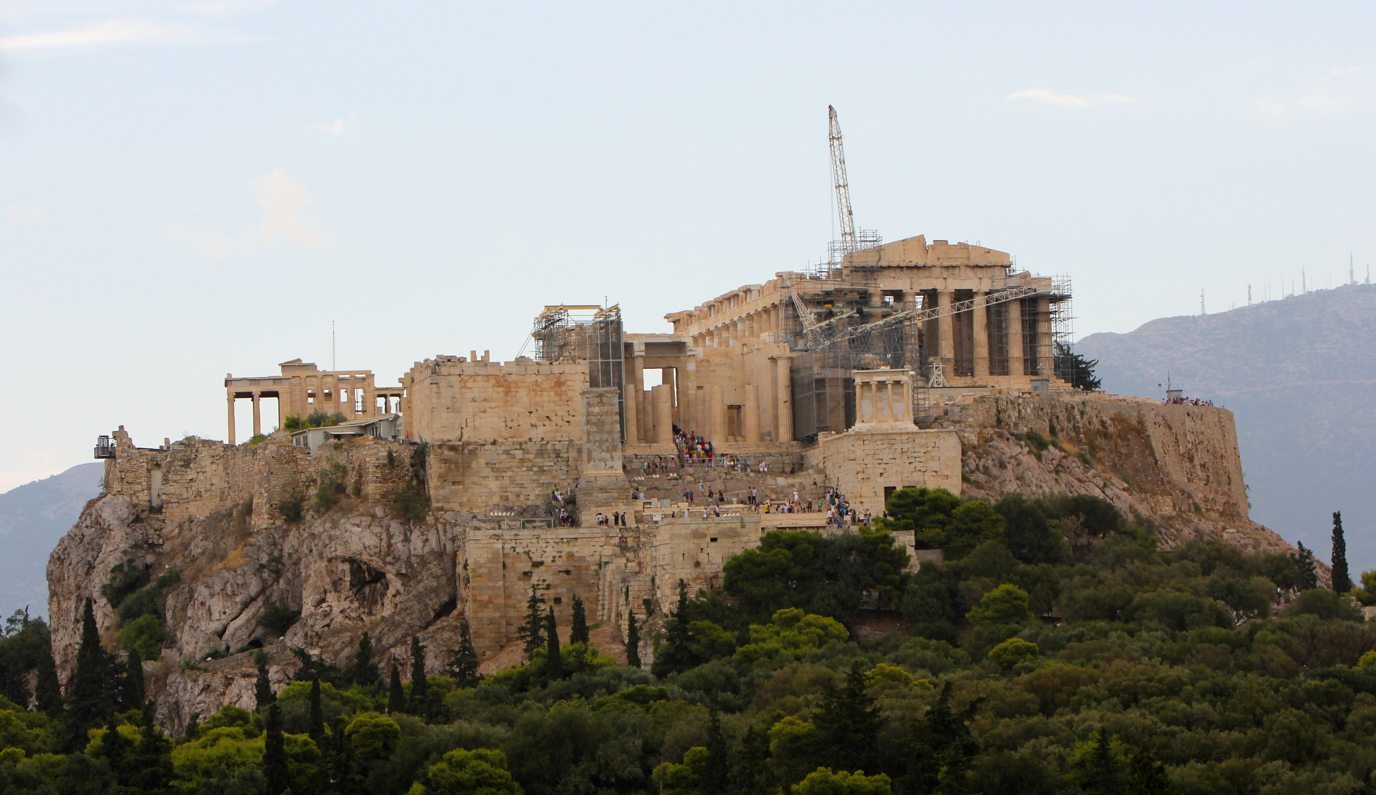 Looking east toward the Acropolis under construction in summer 2014.